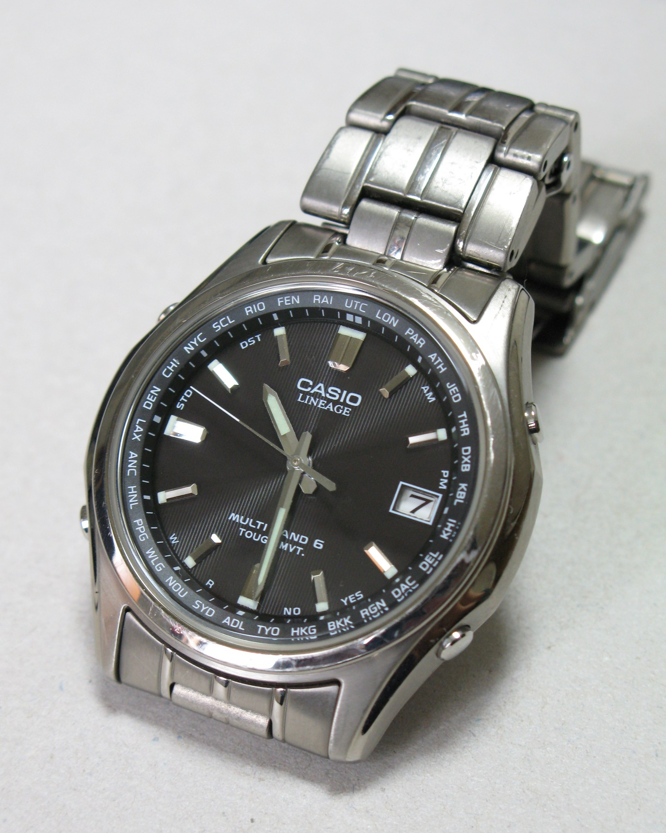 CASIO Wave Ceptor Tough Solar LINEAGE LIW-T100T